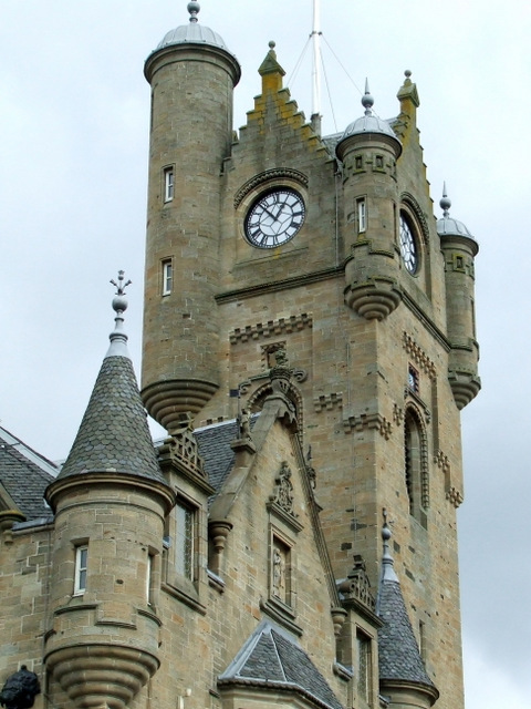 Rutherglen Town Hall tower